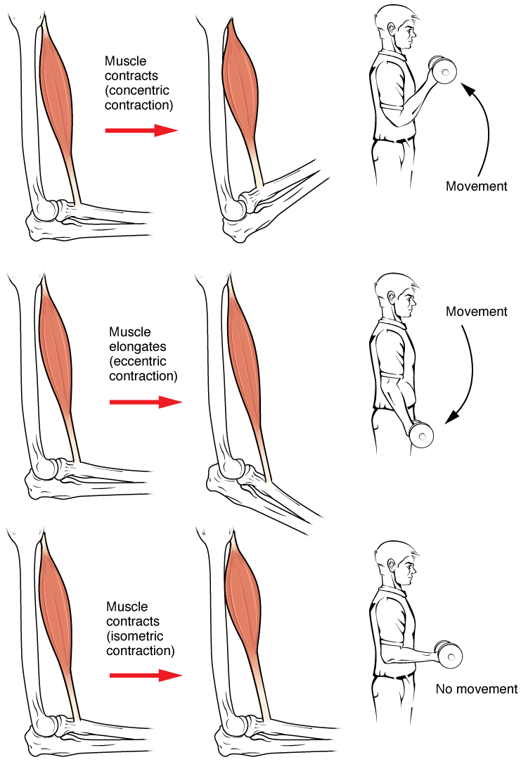 Version 8.25 from the Textbook OpenStax Anatomy and Physiology Published May 18, 2016